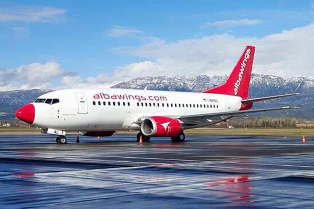 Albawings Airlines Boeing 737-5K5